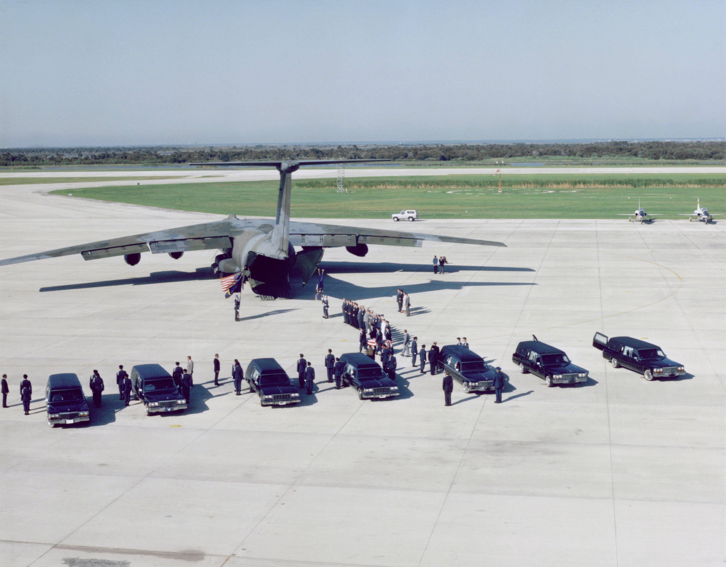 The Space Shuttle Challenger crewmember remains are being transferred from 7 hearse vehicles to a MAC C-141 transport plane at the Kennedy Space Center's Shuttle Landing Facility for transport to Dover Air Force Base, Delaware. The STS-51L crew consisted of: Pilot, Mike Smith; Commander, Dick Scobee; Mission Specialist, Ron McNair; Mission Specialist, Ellison S. Onizuka; Payload Specialist, Greg Jarvis; Mission Specialist, Judy Resnik; and Teacher in Space Participant Sharon Christa McAuliffe.